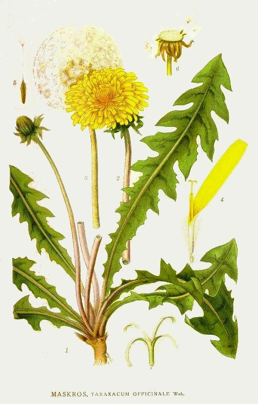 Taraxacum sect. Ruderalia Kirschner, H.Øllg. & Štěpánek, syn. Taraxacum officinale Web. Original Description Maskros, Taraxacum officinale Web.